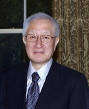 Japan's outgoing Ambassador to the United States, Ryozo Kato cropped from File:George_W_Bush_and_Ryozo_Kato.jpg